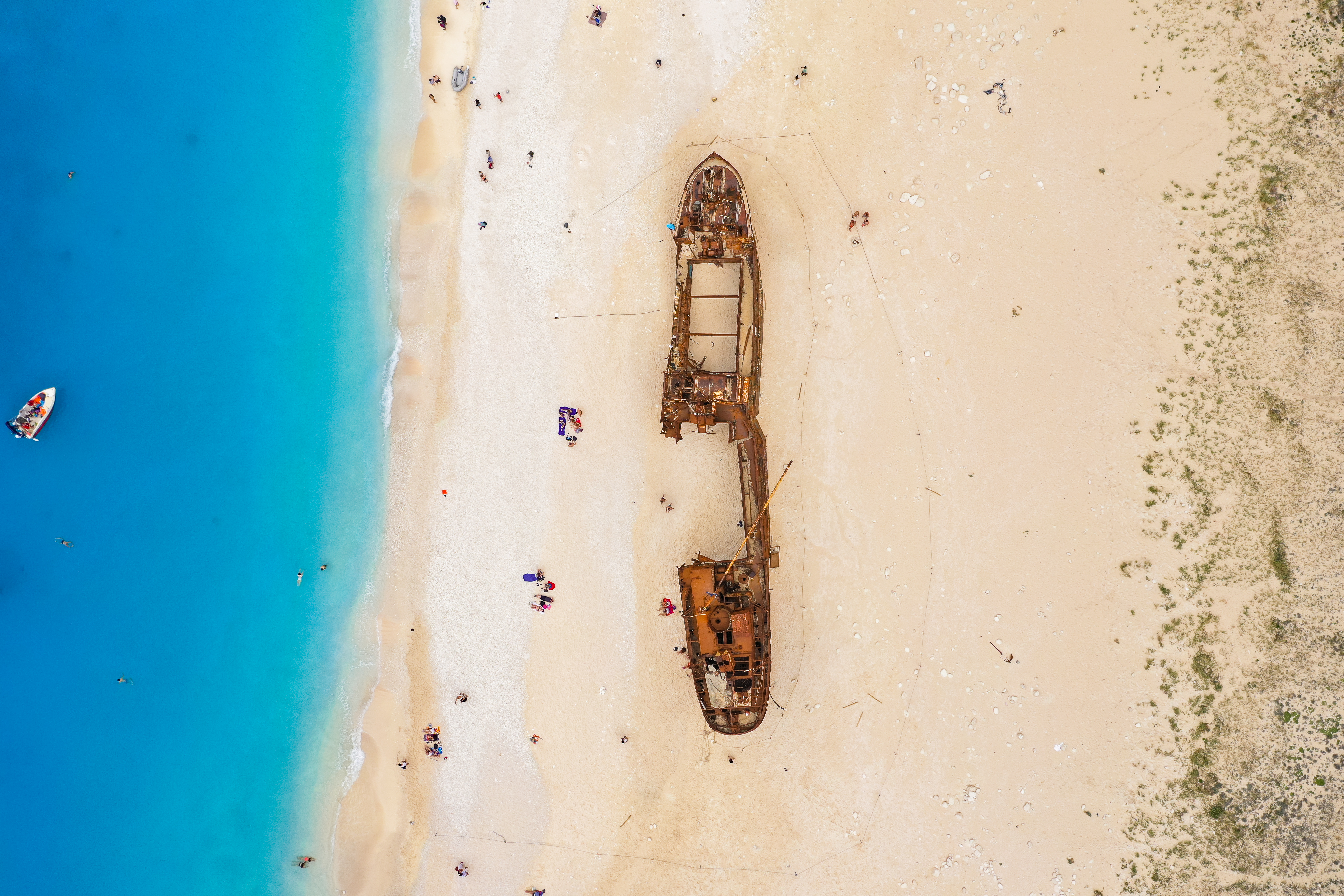 Navagio Beach and wreck of the MV Panagiotis aerial